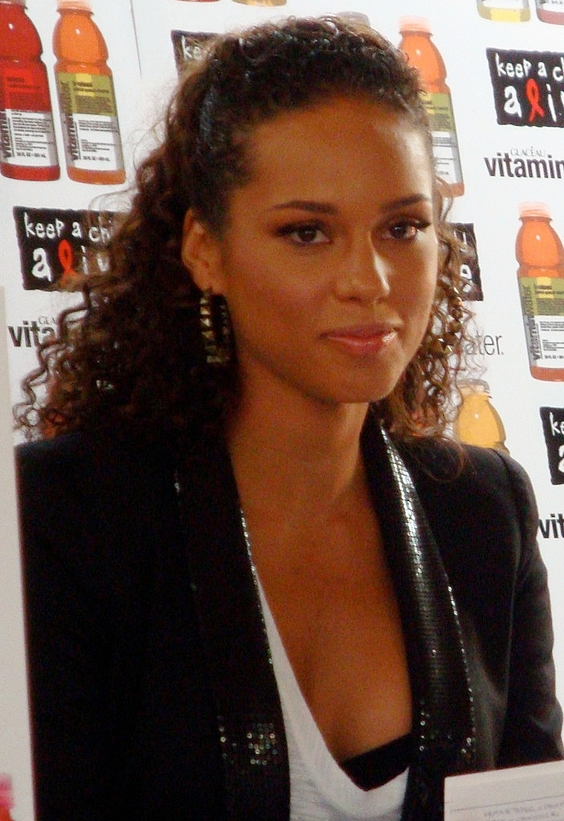 American singer-songwriter Alicia Keys in South Africa for the FIFA World Cup Kick Off Concert.